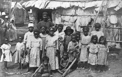 Former slaves in Puerto Rico. Source and licensing Available online at and Previously published in Davis, George W., Brig. Gen., U.S.A. Military Government of Porto Rico from October 18, 1898, to April 30, 1900. Washington, 1902. LC CALL NUMBER: F 1971 .P85